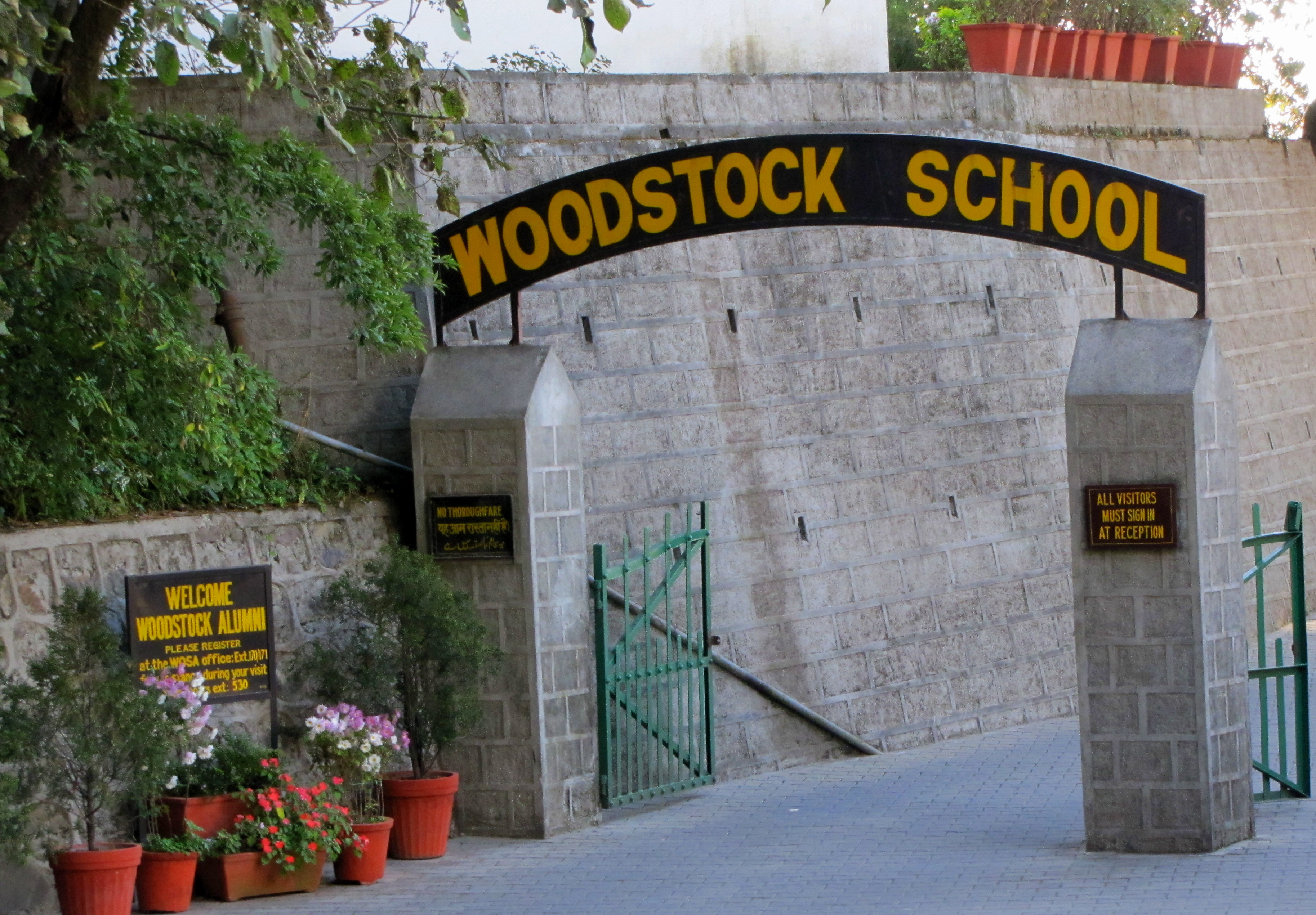 School Gate